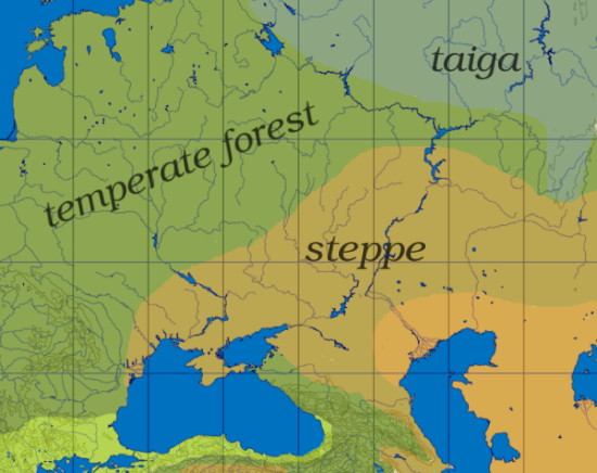 Biome vegetation zones in and adjacent to the Pontic-Caspian steppe grasslands region of the Eurasian Steppe, in Eurasia. Based on Bild:Megawal59.jpg, Image:Pontic caspian blank map.png.